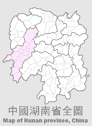 Maps of Hunana Province of China